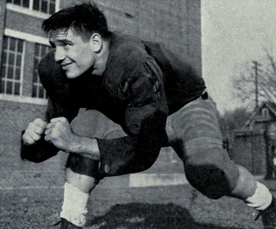 Photograph of Ted Cachey, captain of the 1954 Michigan Wolverines football team This work is in the public domain because it was published in the United States between 1923 and 1963 and although there may or may not have been a copyright notice, the copyright was not renewed. Unless its author has been dead for the required period, it is copyrighted in the countries or areas that do not apply the rule of the shorter term for US works, such as Canada (50 pma), Mainland China (50 pma, not Hong Kong or Macao), Germany (70 pma), Mexico (100 pma), Switzerland (70 pma), and other countries with individual treaties. See Commons:Hirtle chart for further explanation. This work is in the public domain in the United States because it was published in the United States between 1923 and 1977 without a copyright notice. See this page for further explanation. Note that it may still be copyrighted in jurisdictions that do not apply the rule of the shorter term for US works (depending on the date of the author's death), such as Canada (50 p.m.a.), Mainland China (50 p.m.a., not Hong Kong or Macao), Germany (70 p.m.a.), Mexico (100 p.m.a.), Switzerland (70 p.m.a.), and other countries with individual treaties.